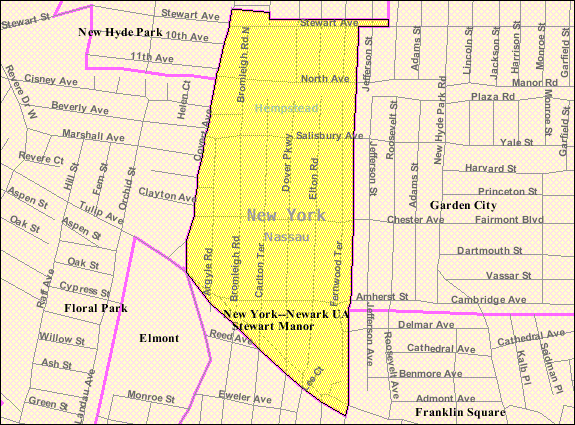 U.S. Census 2000 reference map for Stewart Manor, New York